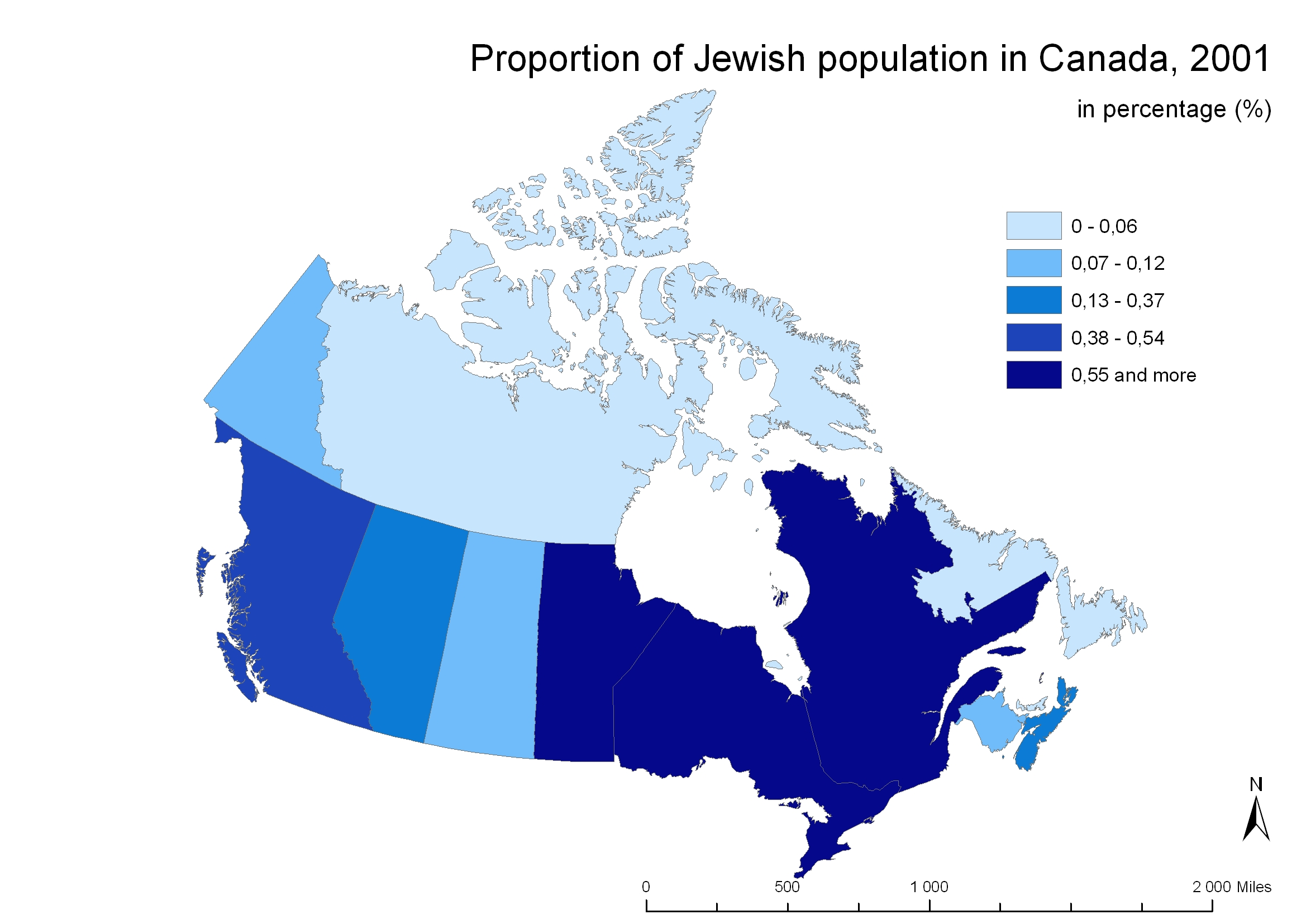 Percentage of Jewish population in Canada, 2001 (Nunavut territory is part of Northwest Territories)